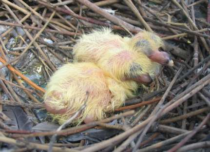 Columba livia 1 day old in the nest, Cracow